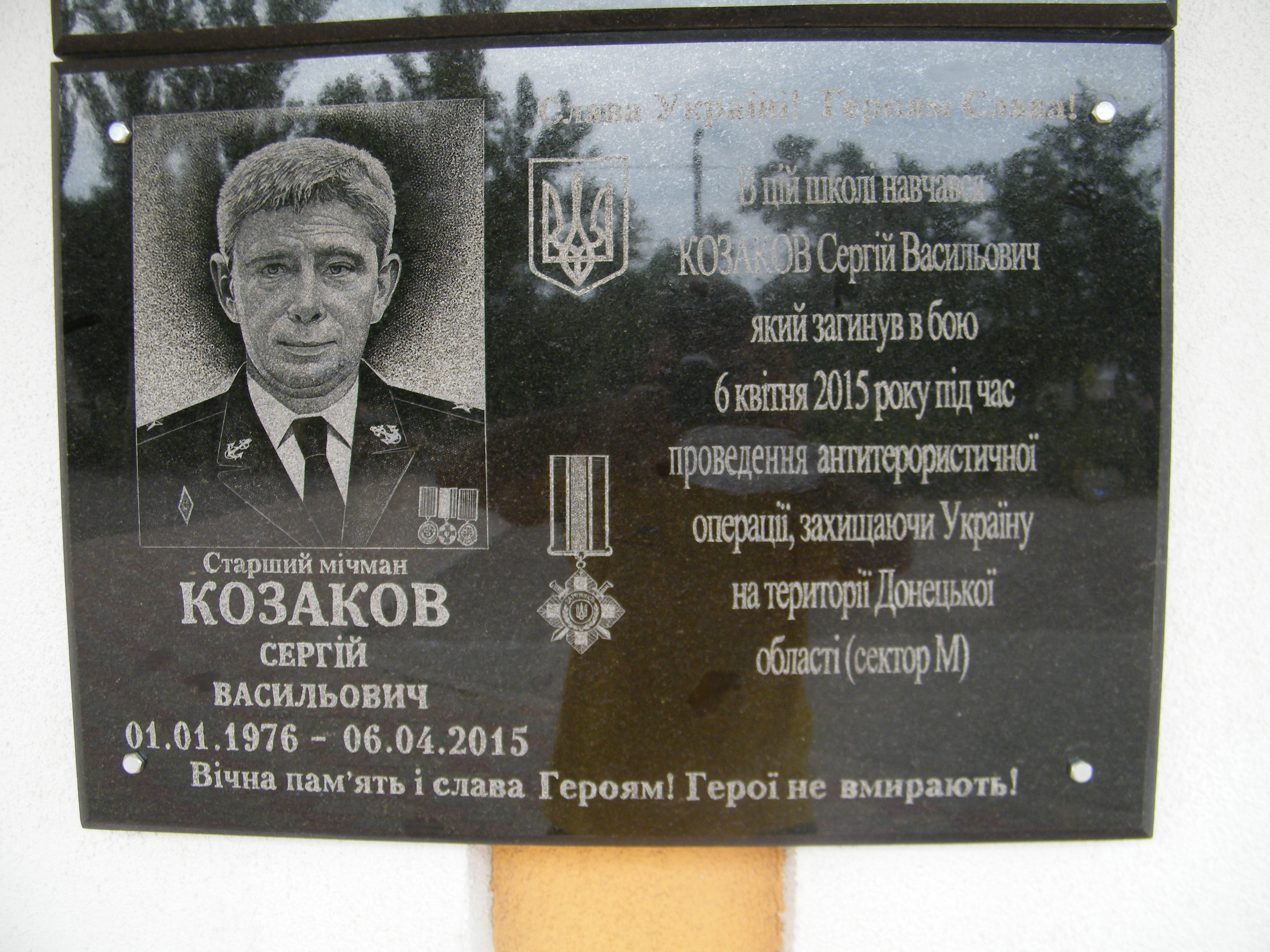 Ochakovskaya School number 2 named P. P. Shmidta